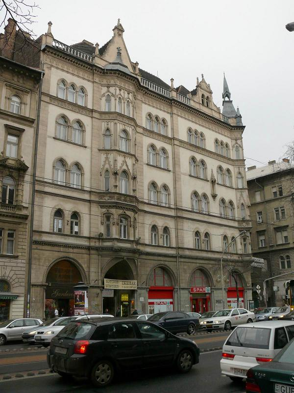 The Erzsébet Boulevard in Budapest